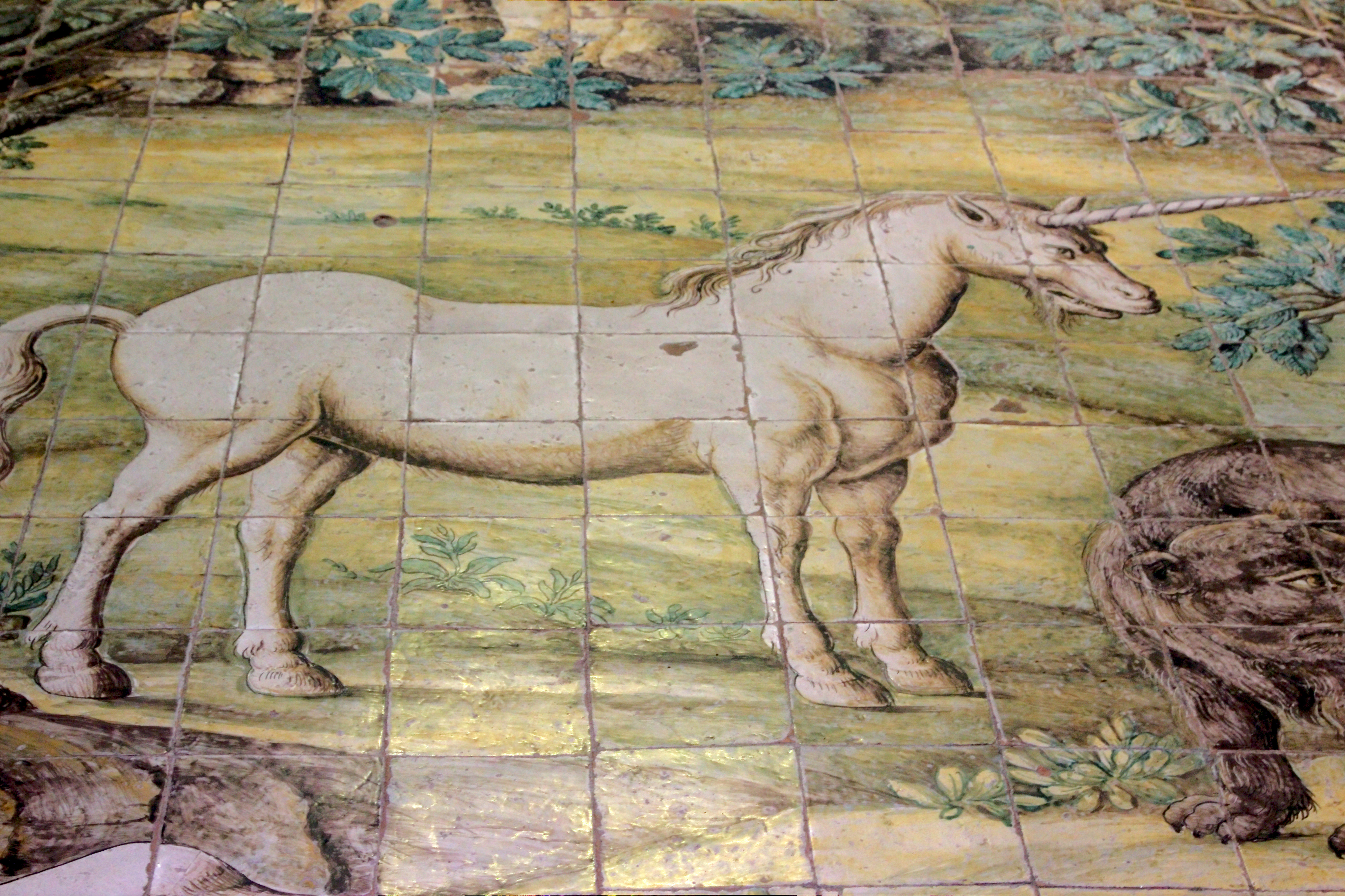 Iterior of Chiesa di San Michele in Anacapri